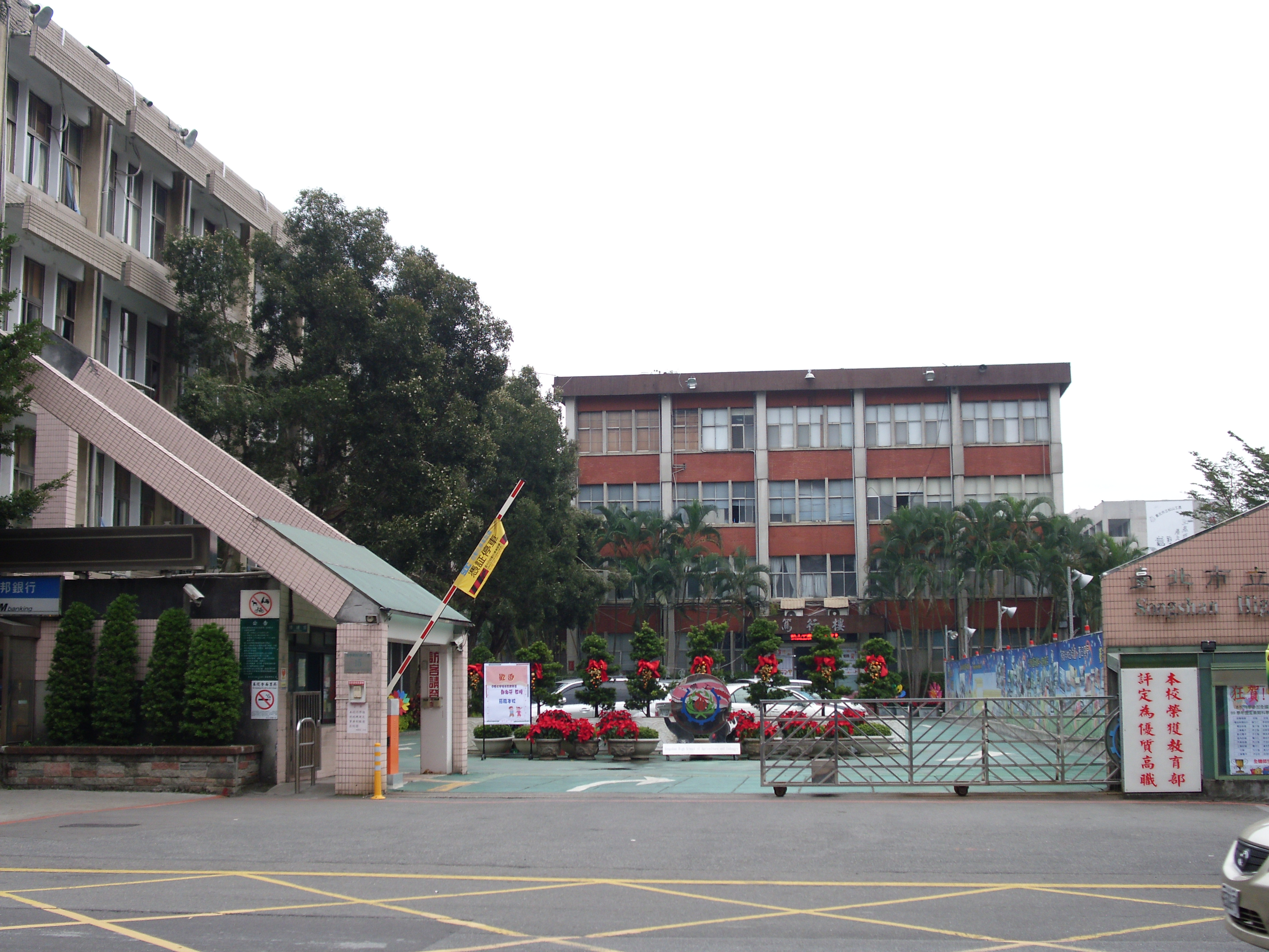 Taipei Songshan High School of Agriculture and Industry